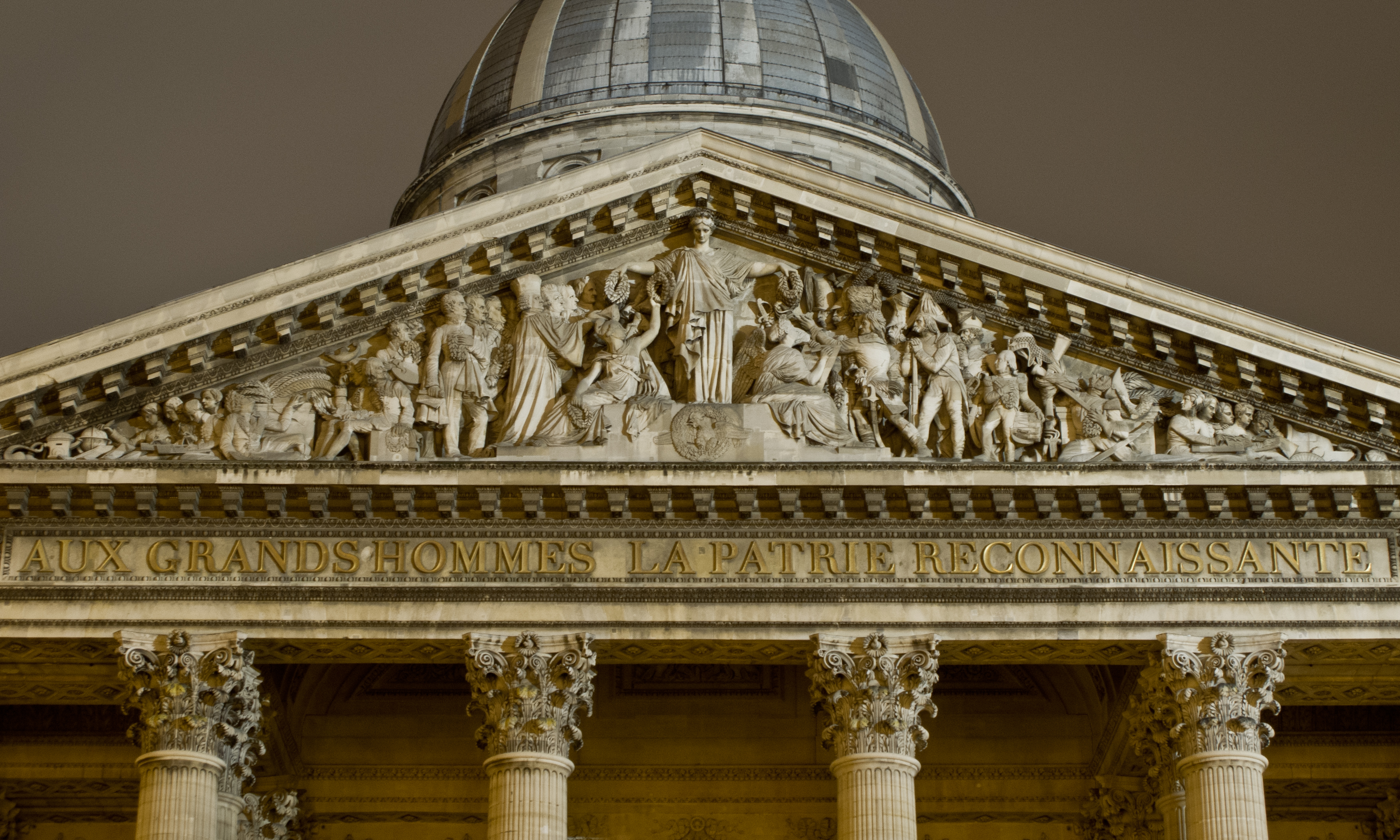 Night view of Pantheón, Paris, France